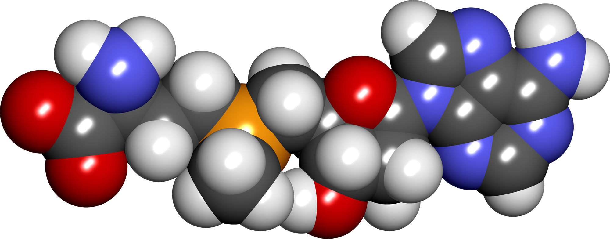 A space filling diagram of S-adenosyl methionine.